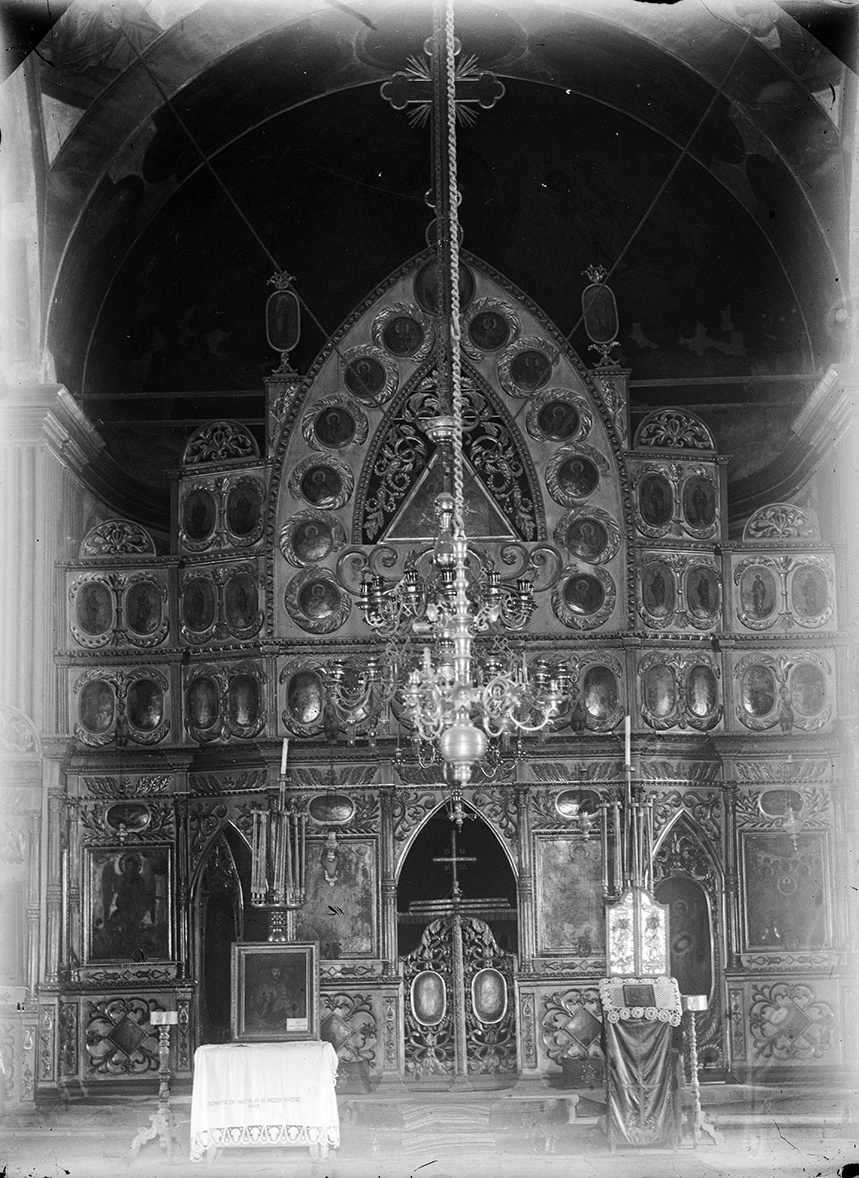 Altar de biserică The project Costică Acsinte Archive needs help: please donate and share the link igg.me/at/acsinte/x/6146081 DAM by IDimager